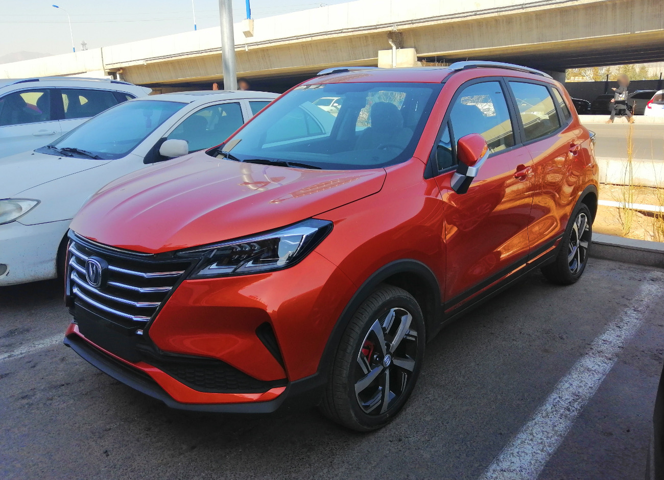 Chang'an CS15 facelift photographed in Hohhot, Inner Mongolia autonomous region, China.